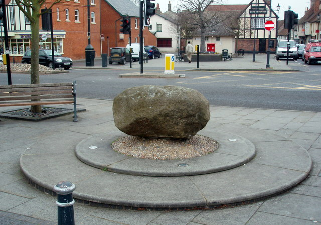 The Royse Stone at the junction of Ermine Street and the Icknield Way in the centre of Royston, Hertforshire. The stone is a glacial erratic. Soon after 1066 Lady Roisia had it set here as the base of a stone cross.